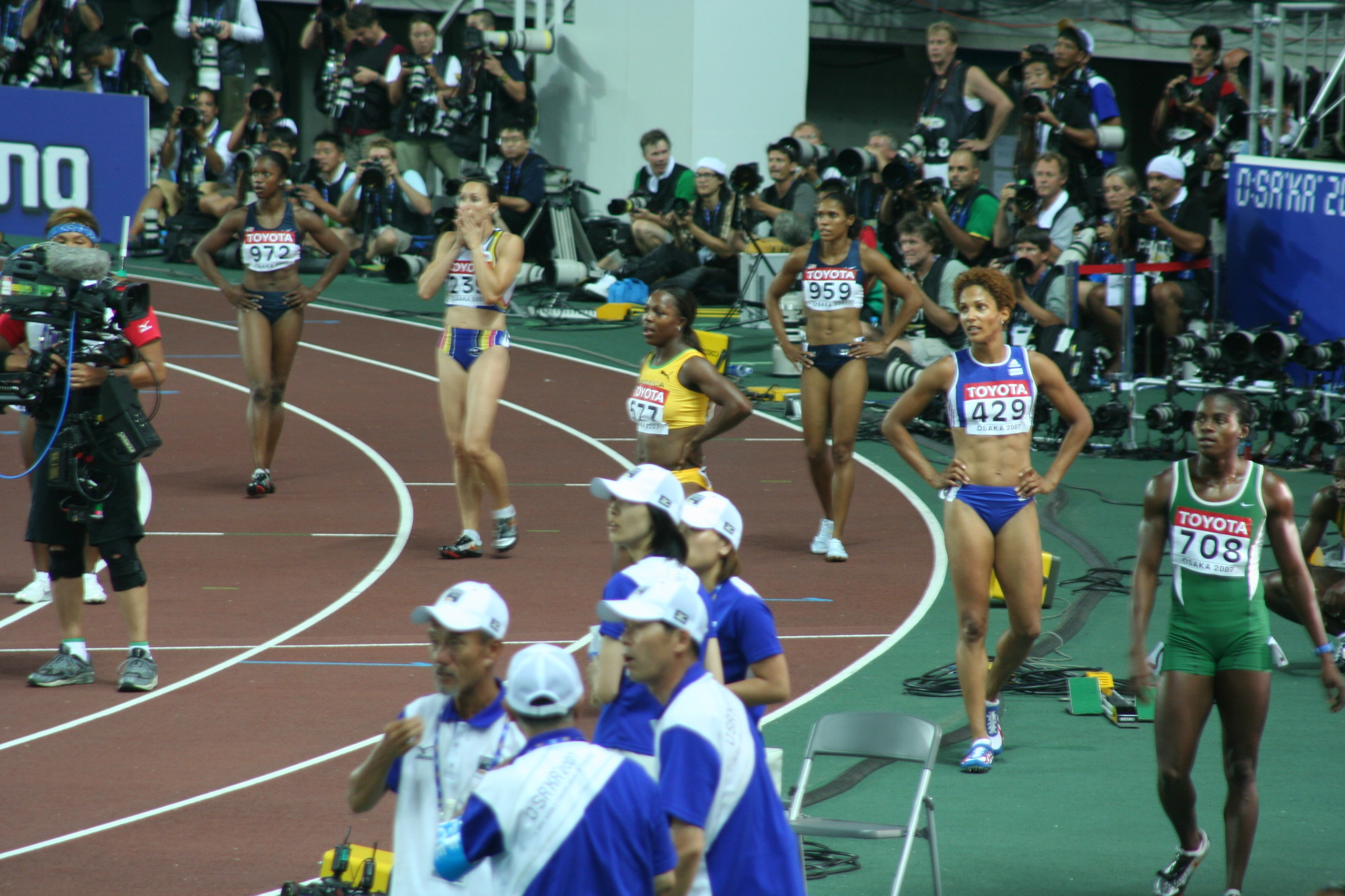 World Athletics Championships 2007 in Osaka - after an extremely tight 100 metres final, the winner is still unknown. Picture includes Carmelita Jeter (no. 972, finishing 3rd in 11.02), Kim Gevaert (no. 239, finishing 5th in 11.05), Veronica Campbell (no. 577, winner in 11.01), Torri Edwards (no. 959, 4th in 11.05), Christine Arron (no. 429, 6th in 11.08) and Oladumola Osayomi (no. 708, 8th in 11.26)